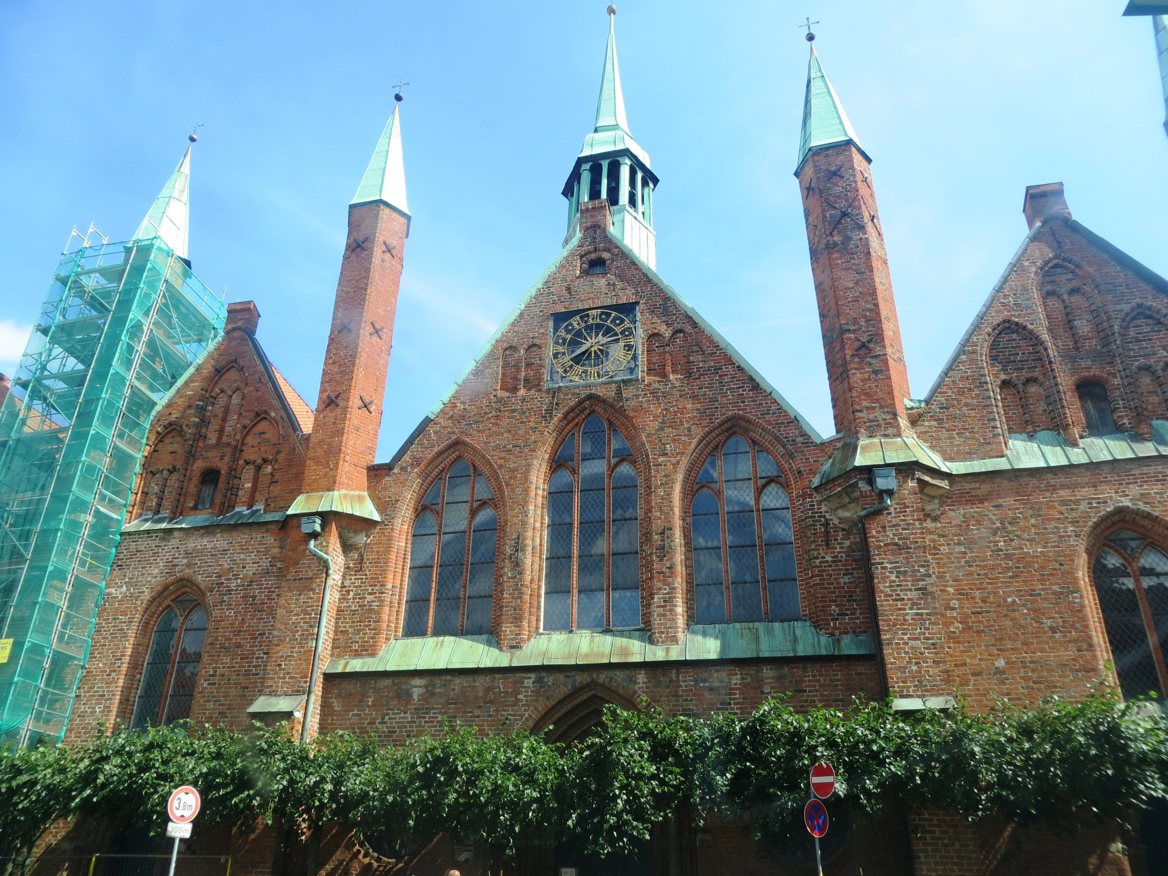 The Heiligen Geist (Holy Spirit) Hospital in Lübeck, northern Germany.